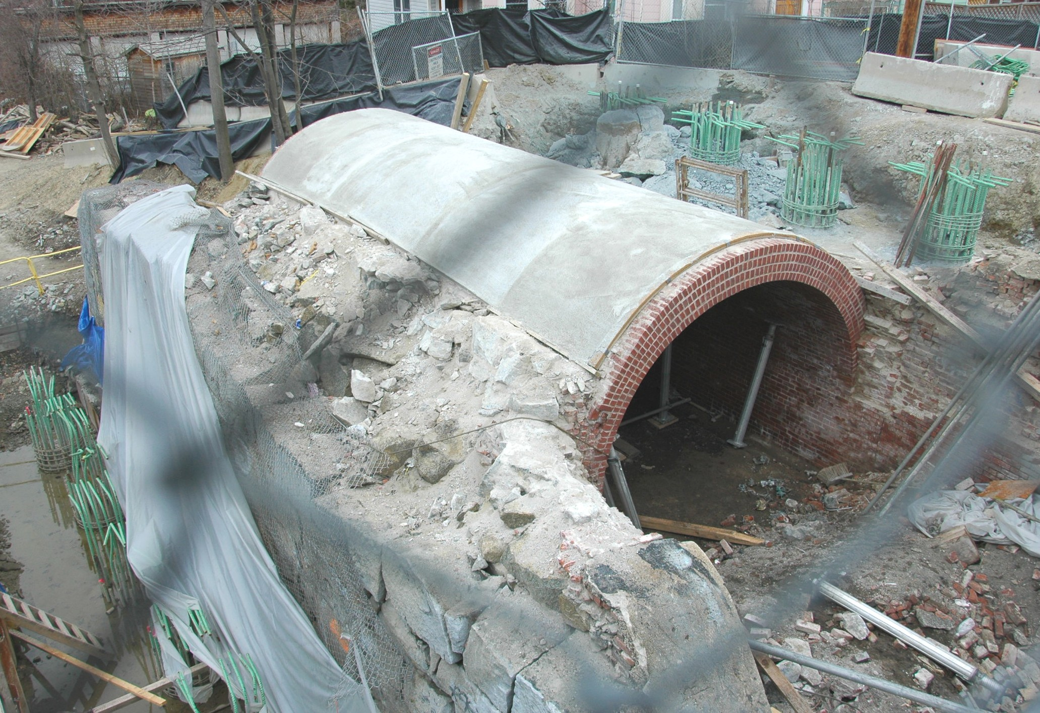 Historic 1857 Cattle Pass in Cambridge, Massachusetts. Usually nearly concealed under the Walden Street Bridge, the tunnel is seen here exposed during 2007-08 bridge reconstruction work, which included restoration of the tunnel's brickwork.